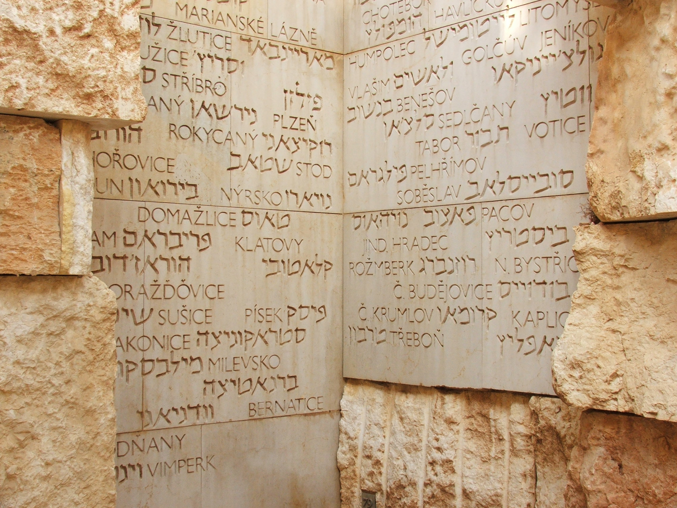 Yad Vashem, Valley of communities - Czech communities, Jerusalem Česky: Jad Vašem, Valley of communities - památník zaniklým židovským obcím v Evropě, část věnovaná českým zemím, Jeruzalém, Izrael